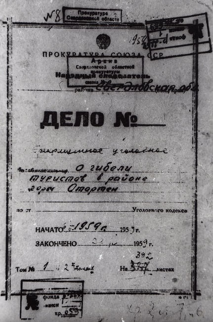 The original cover of the criminal case on the occasion of the "Dyatlov Pass incident"